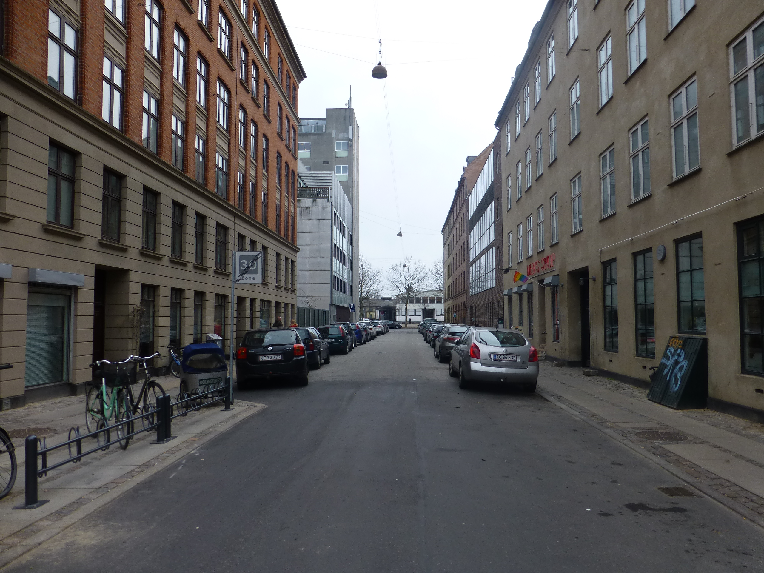 Viktoriagade is a street in Vesterbro in Copenhagen.